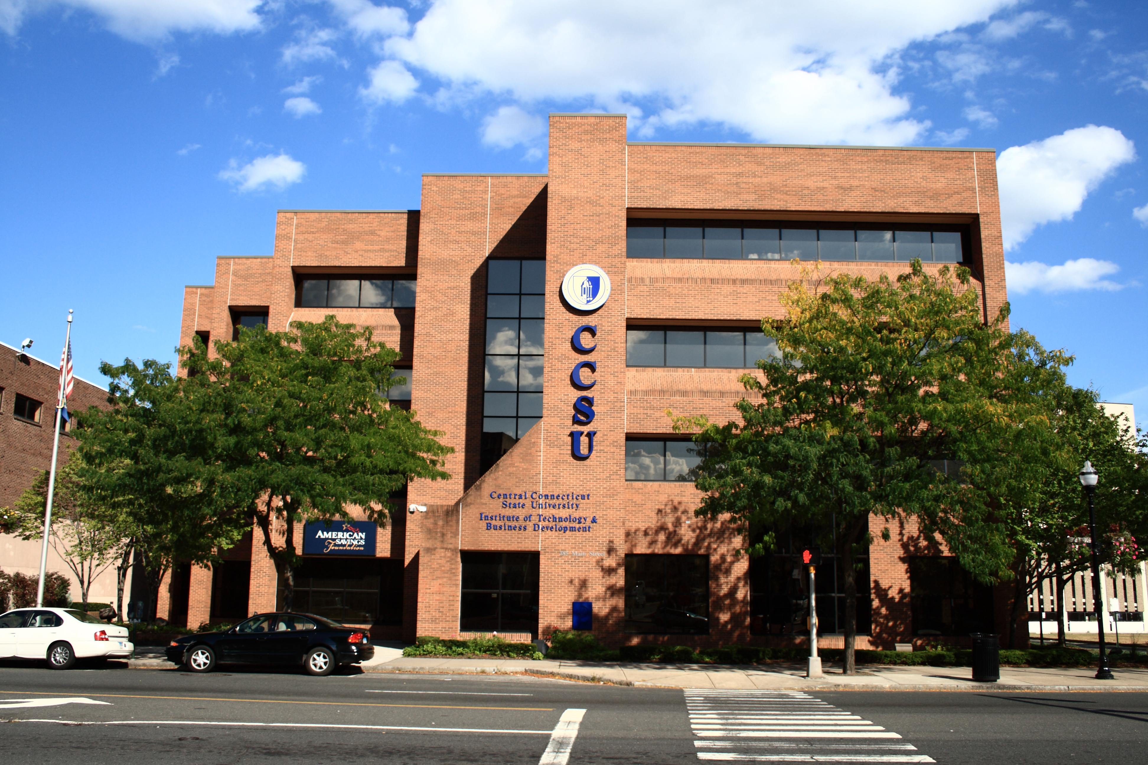 Central Connecticut State University's Institute of Technology and Business Development in downtown New Britain, Connecticut - OpenStreetMap (Info)